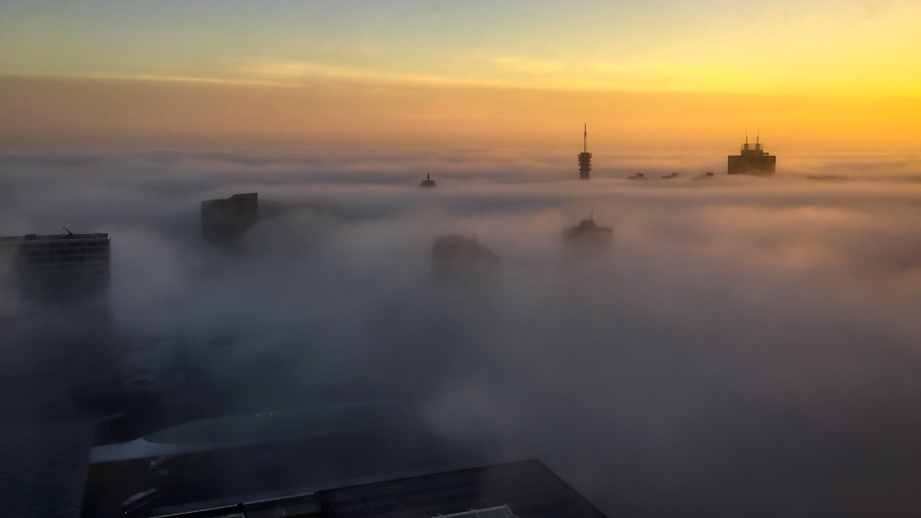 Den Haag / The Hague / 's-Gravenhage - iPhone picture